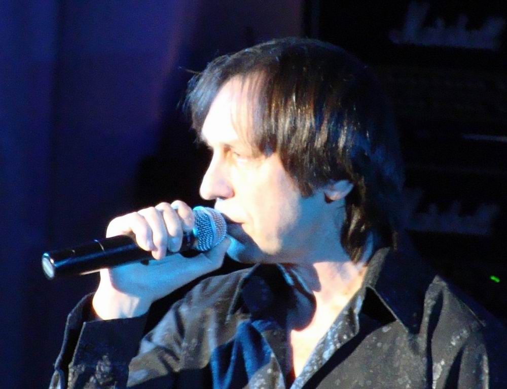 Nikolai Ivanovich Noskov ( born January 12, 1956, Gzhatsk) is a Russian singer and a former vocalist of the hard rock band Gorky Park.